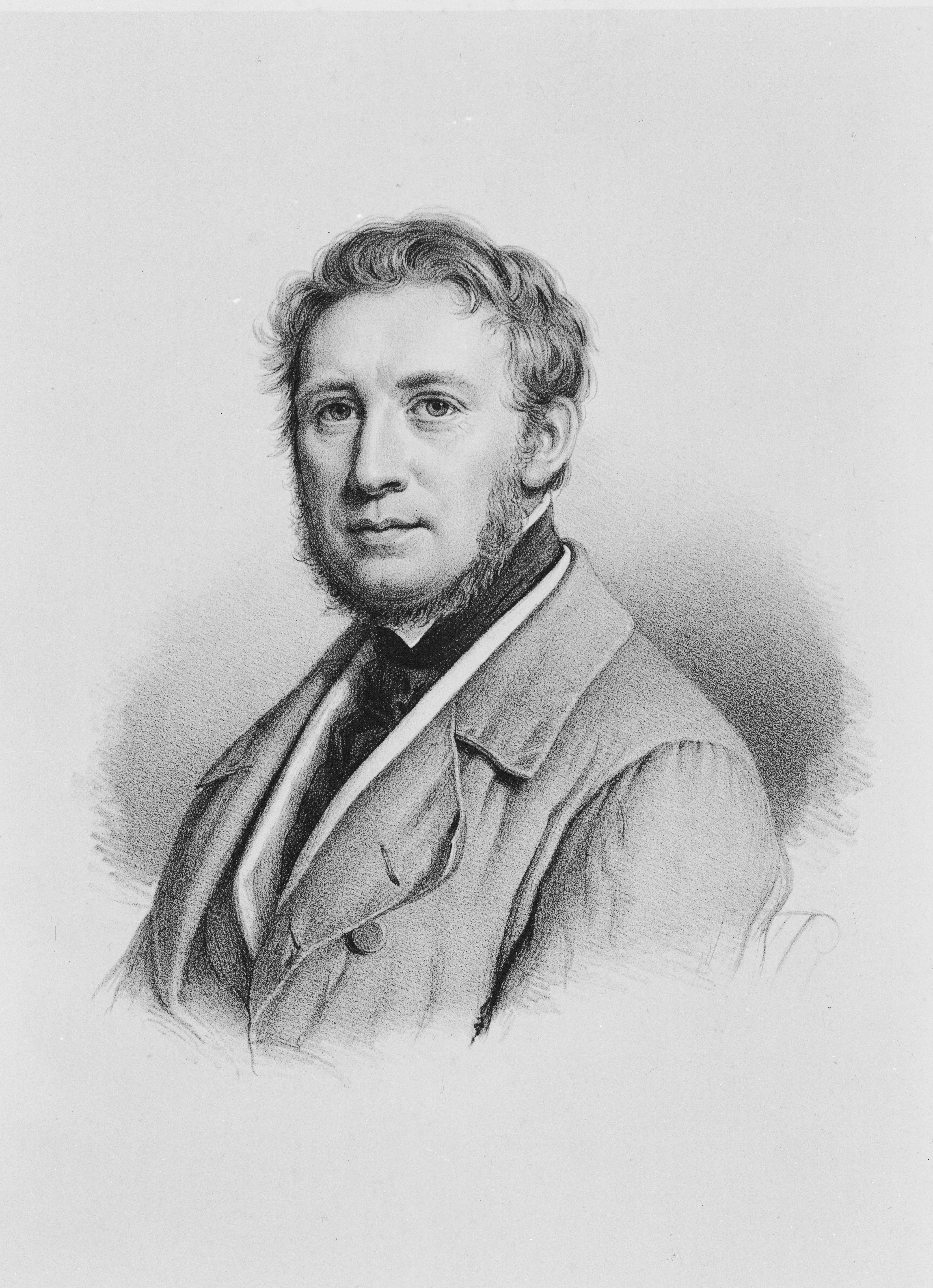 Self-portrait of Emilius Ditlev Bærentzen (1799-1868), Danish painter and lithographer